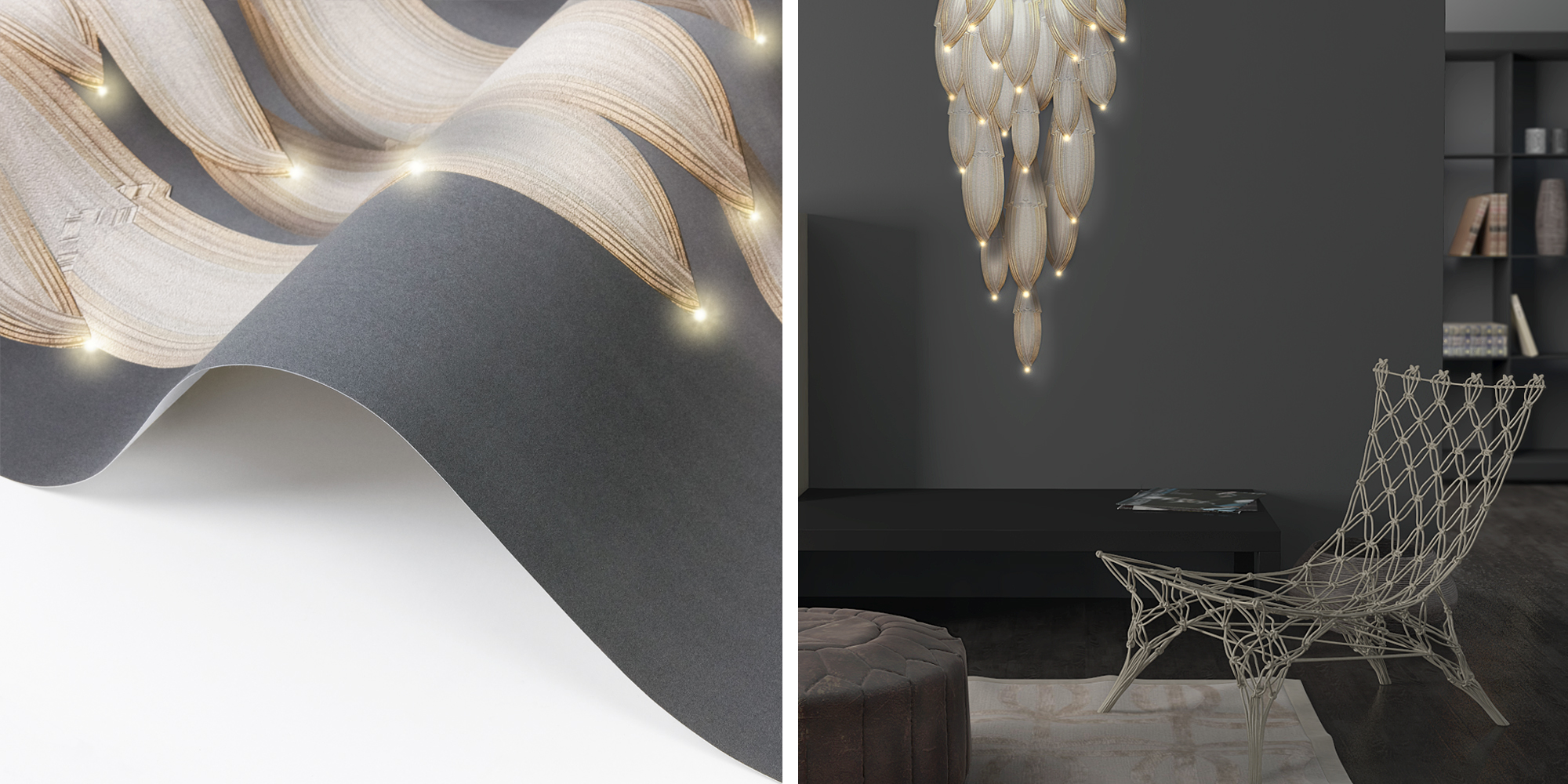 Digitally printed LED wallpaper Dolomites